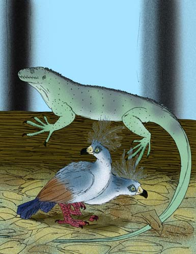 Comparison of the extinct Giant Fijian Iguana, Lapitiguana impensa, and two Viti Levu Giant Pigeons, Natunaornis gigoura, from prehistoric Fiji. The latter would have been as large as chickens. The former would have been as large as a green iguana, Iguana iguana.